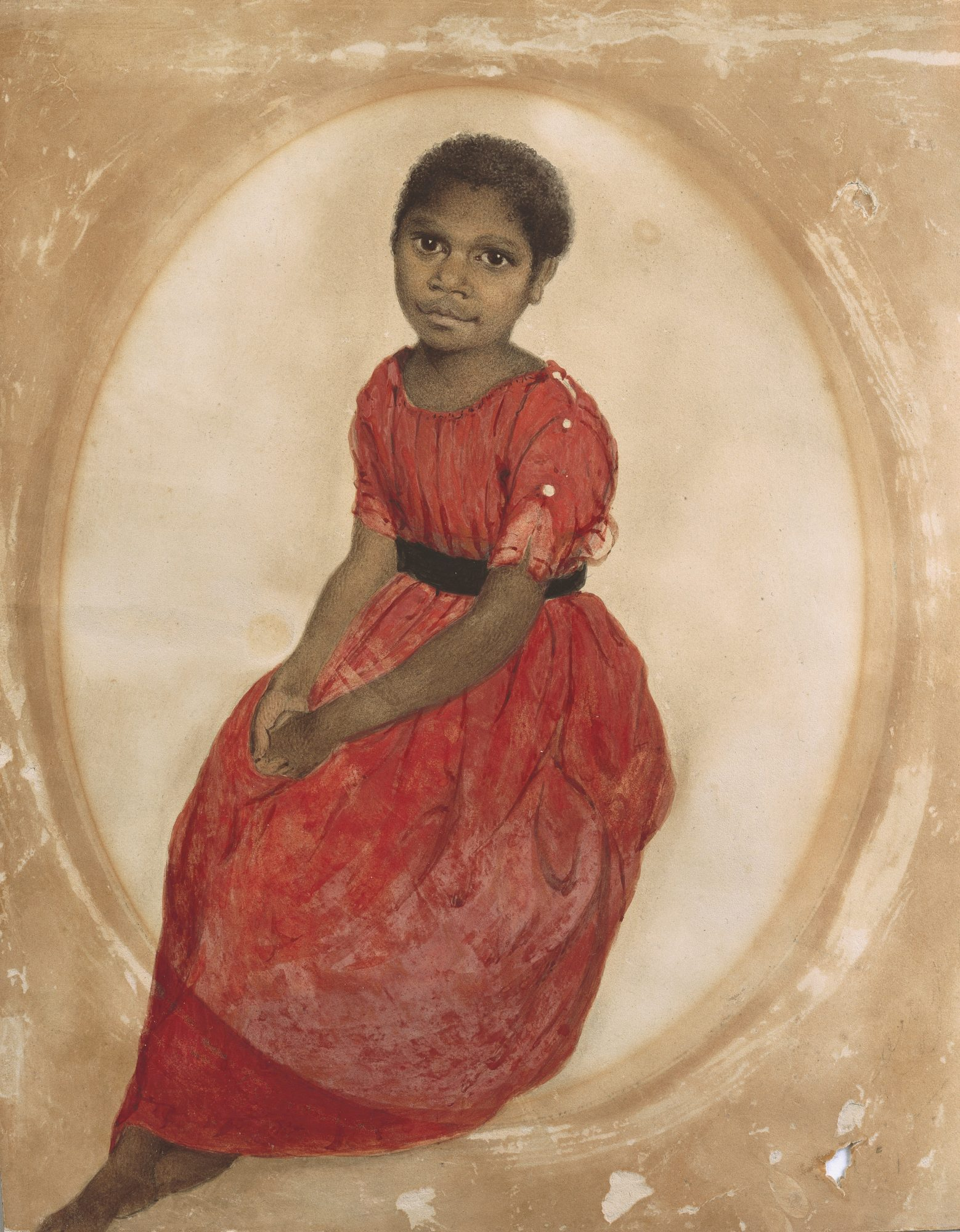 watercolour portrait of Mathinna an indigenous Australian girl from Tasmania (1835 – 1856)